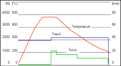 Precision Glass Moulding Process Parameters